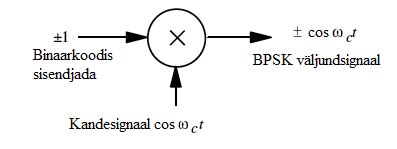 Block diagram of BPSK modulator